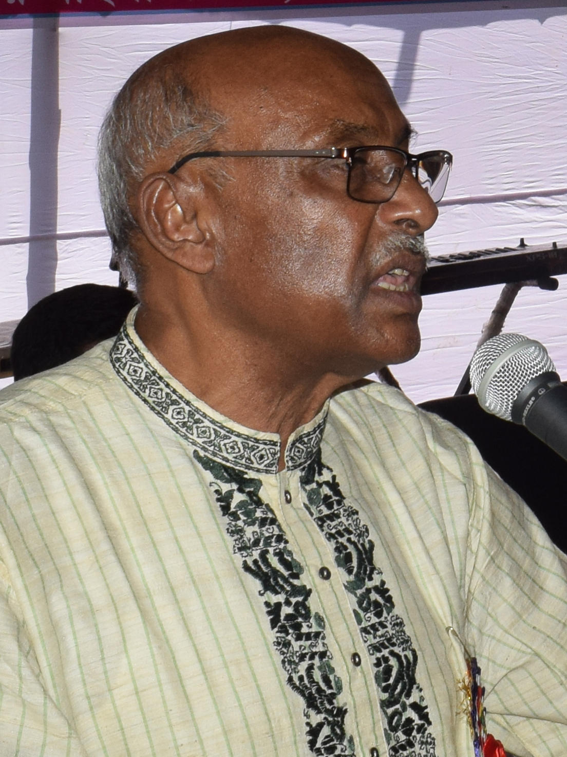 Ashraf Ali Khan Khasru is addressing at Netrokona Govt. Womens College.